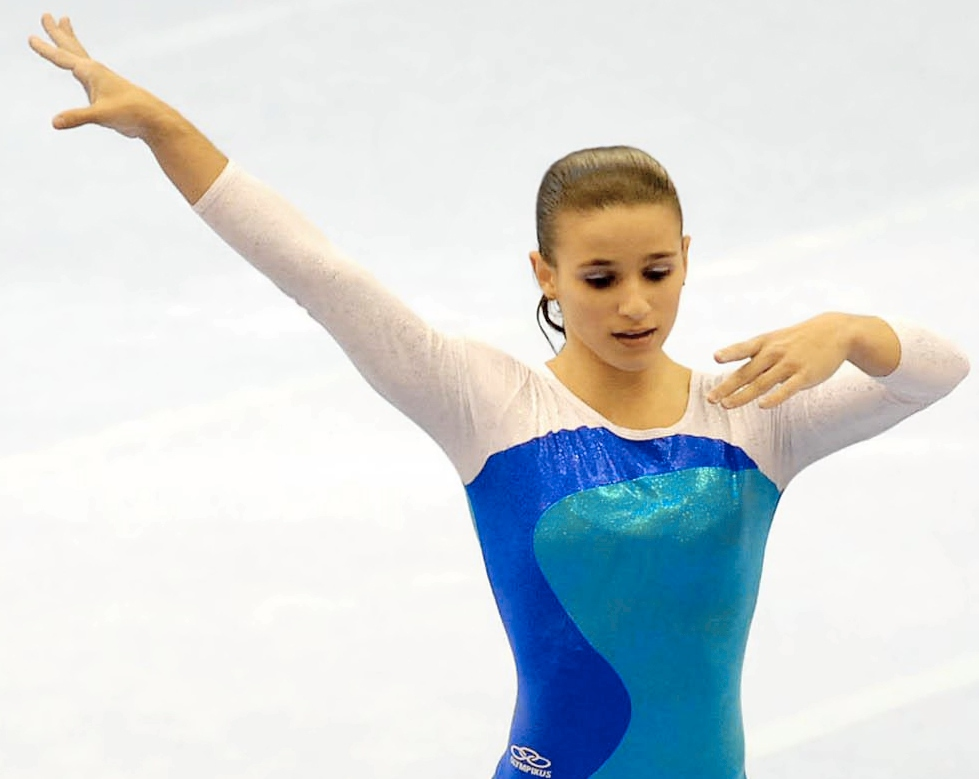 Jade Barbosa, a Brazilian artistic gymnast, beginning a pirouette turn during her floor routine at the 2007 Pan American Games in Rio de Janeiro.